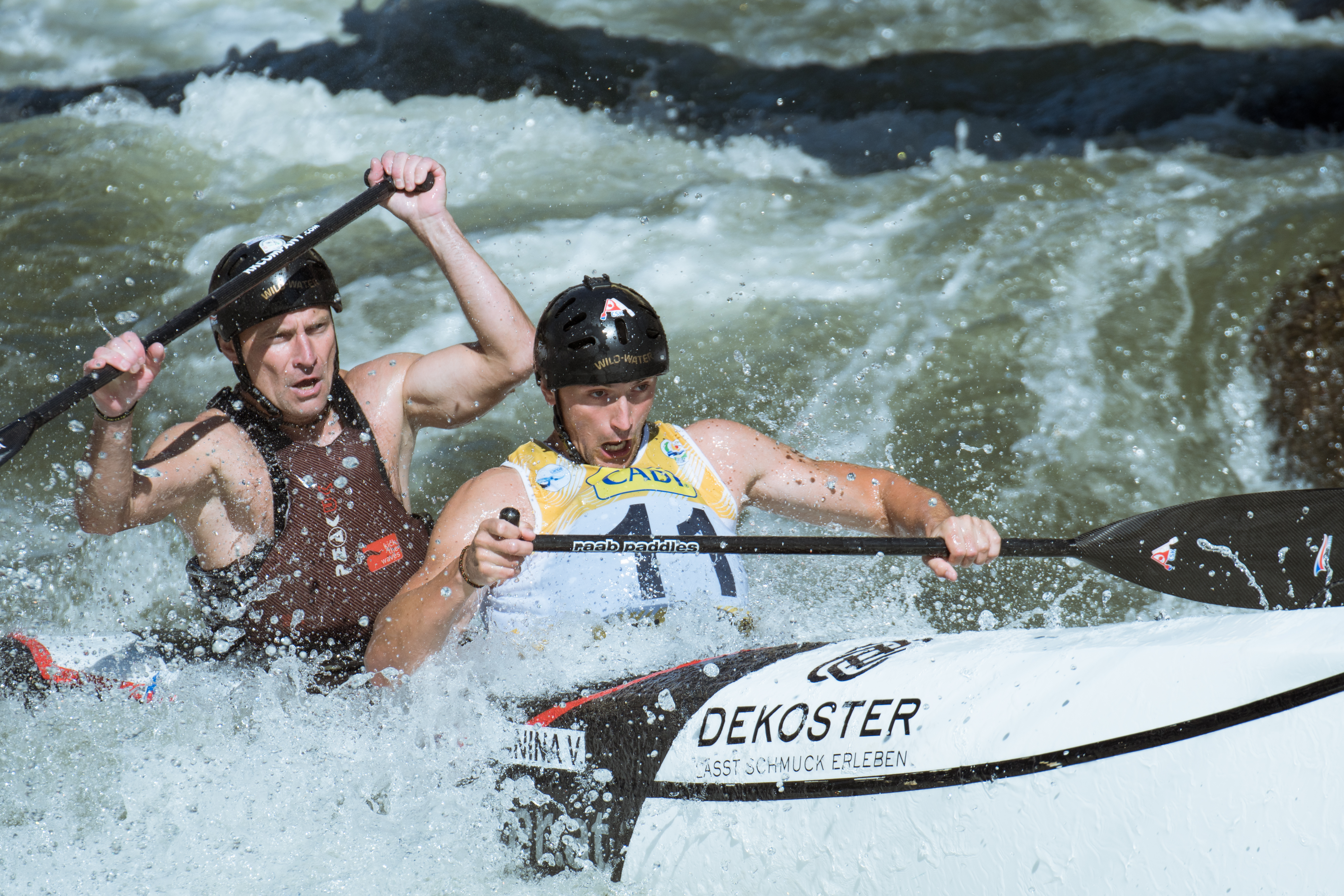 Vladimír Slanina and Vladimír Sen Slanina during the 2019 Canoe Wildwater World Championships in La Seu d'Urgell, Spain.